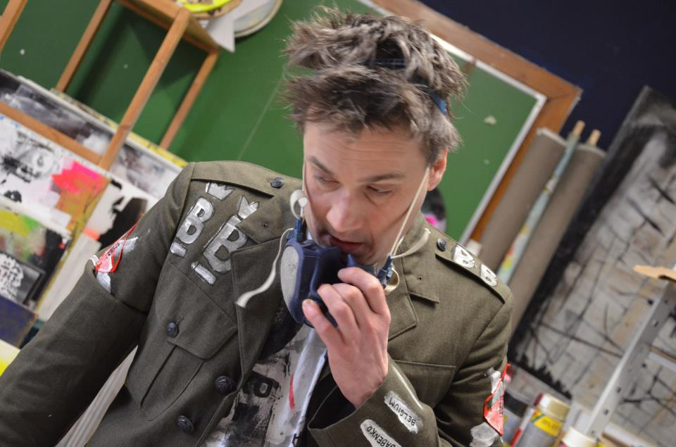 Andrej Babenko at work in his Atelier in Antwerp, Belgium.